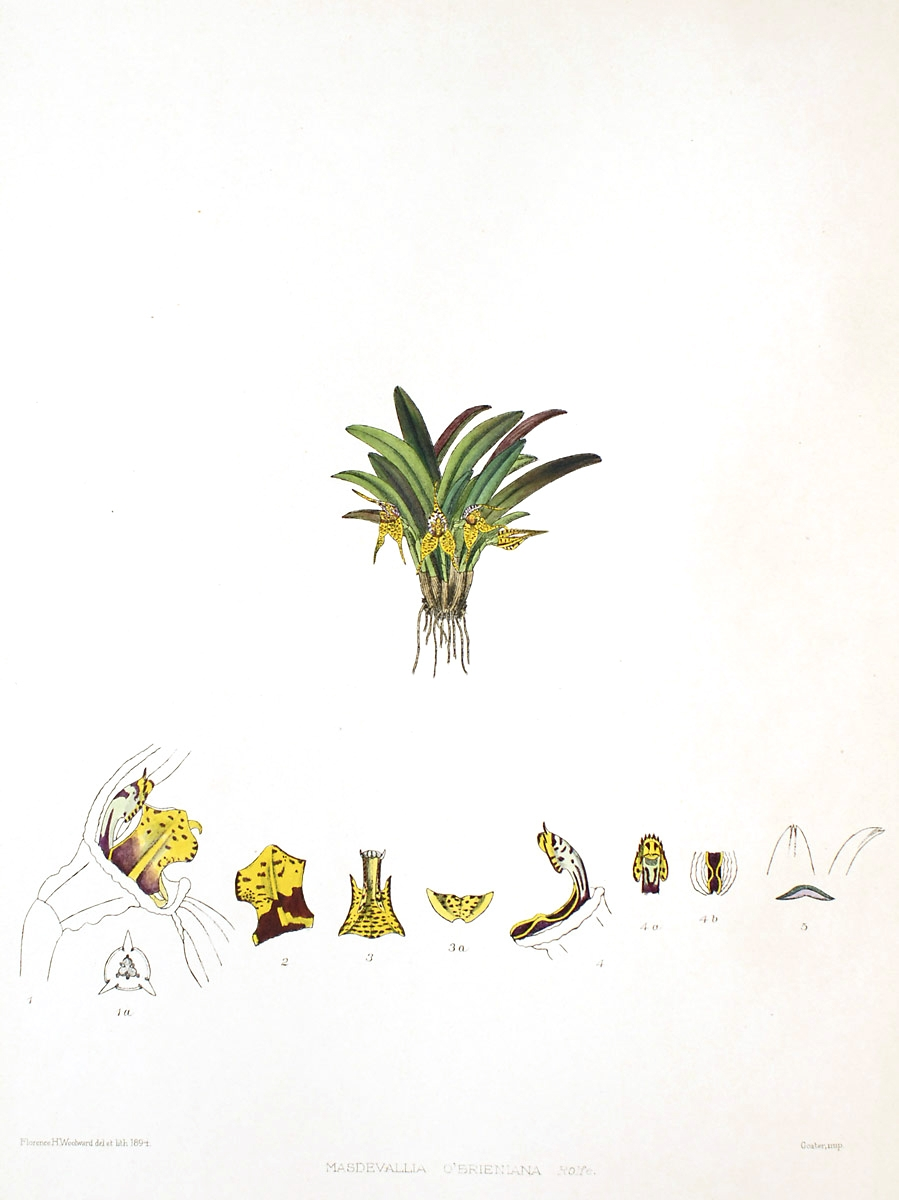 Illustration of Dryadella aviceps from Florence H. Woolward: The Genus Masdevallia